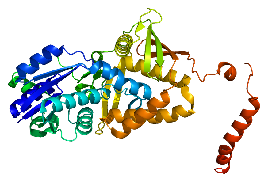 Structure of the ASS1 protein. Based on PyMOL rendering of PDB 2nz2.